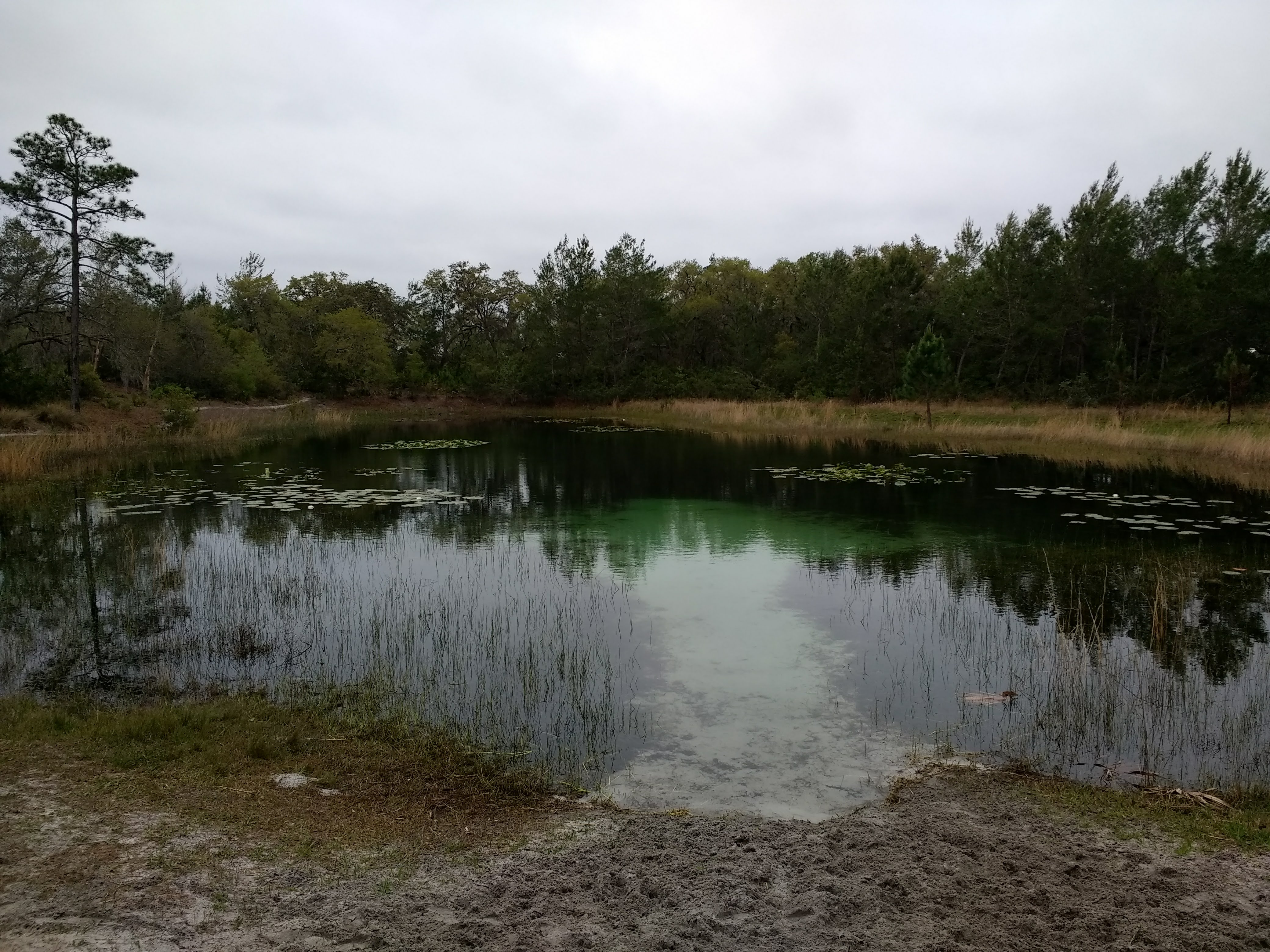 Hidden Pond in the Juniper Prairie Wilderness portion of the Ocala National Forest. This is in the state of Florida.